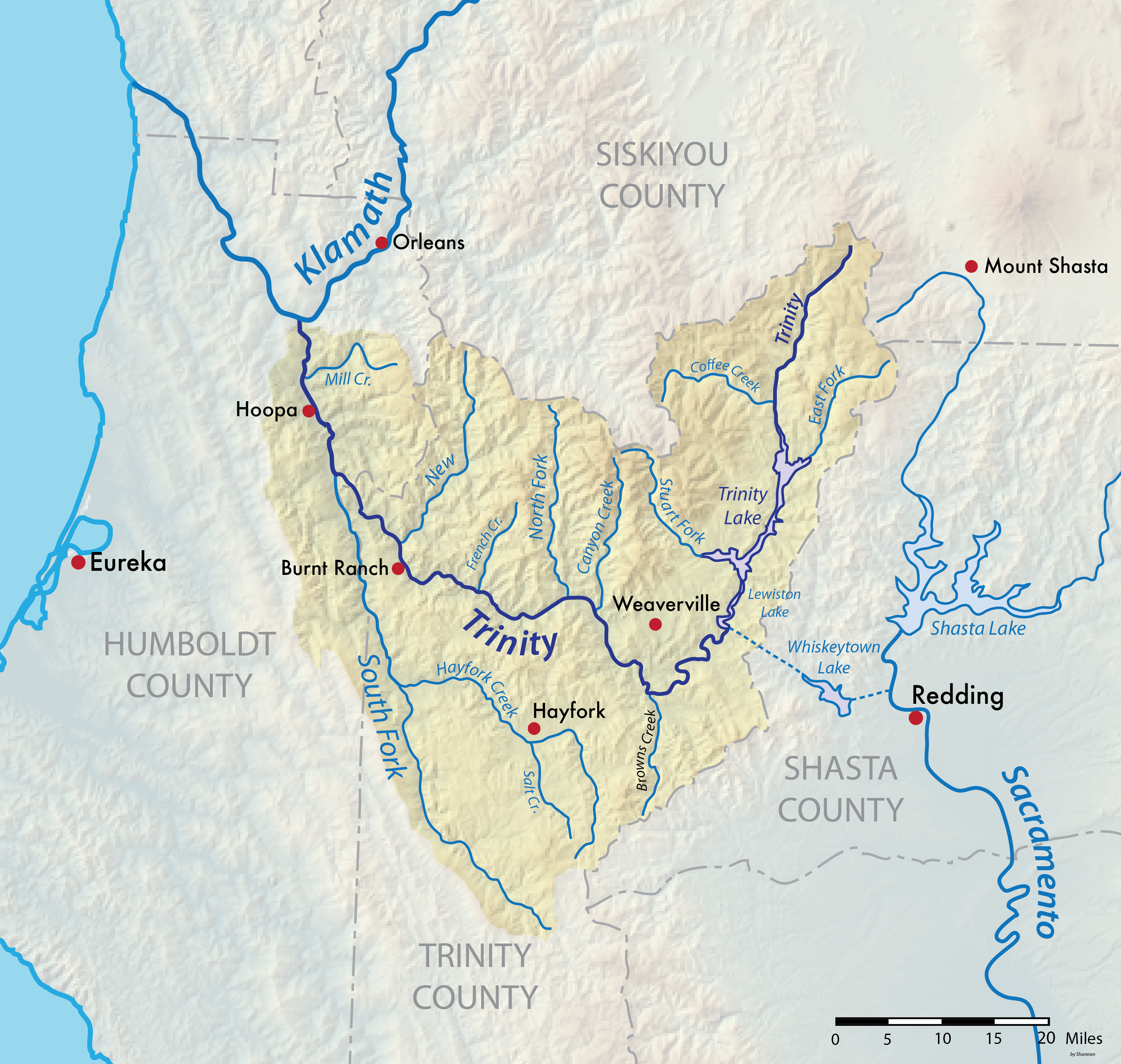 Made using USGS topographic data.